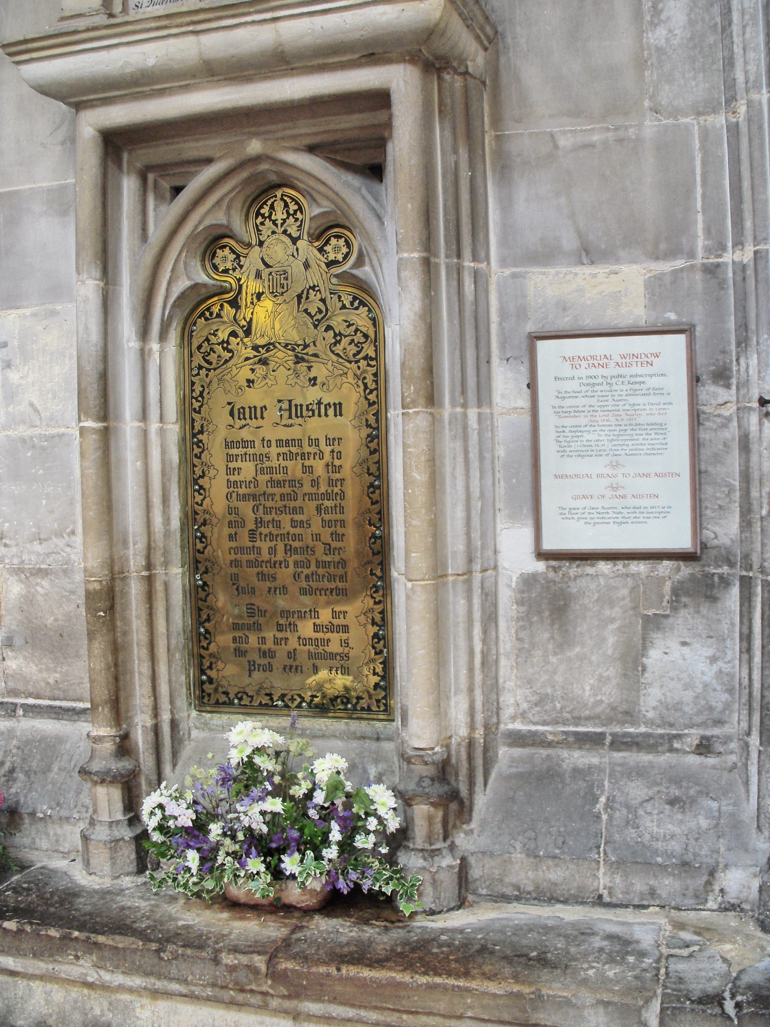 The Jane Austen monument in Winchester Cathedral, July 2011.